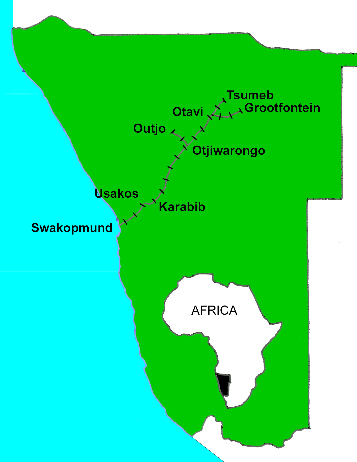 Map of the 60-centimeter gauge railway of the Otavi Mining and Railway Company